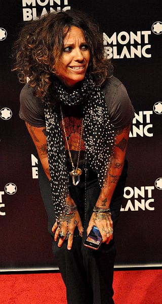 Songwriter Linda Perry attends "To John - With Peace & Love" Global Launch Of The Montblanc John Lennon Edition on September 12, 2010 at Jazz at Lincoln Center in New York City. (Photo © Nick Stepowyj)